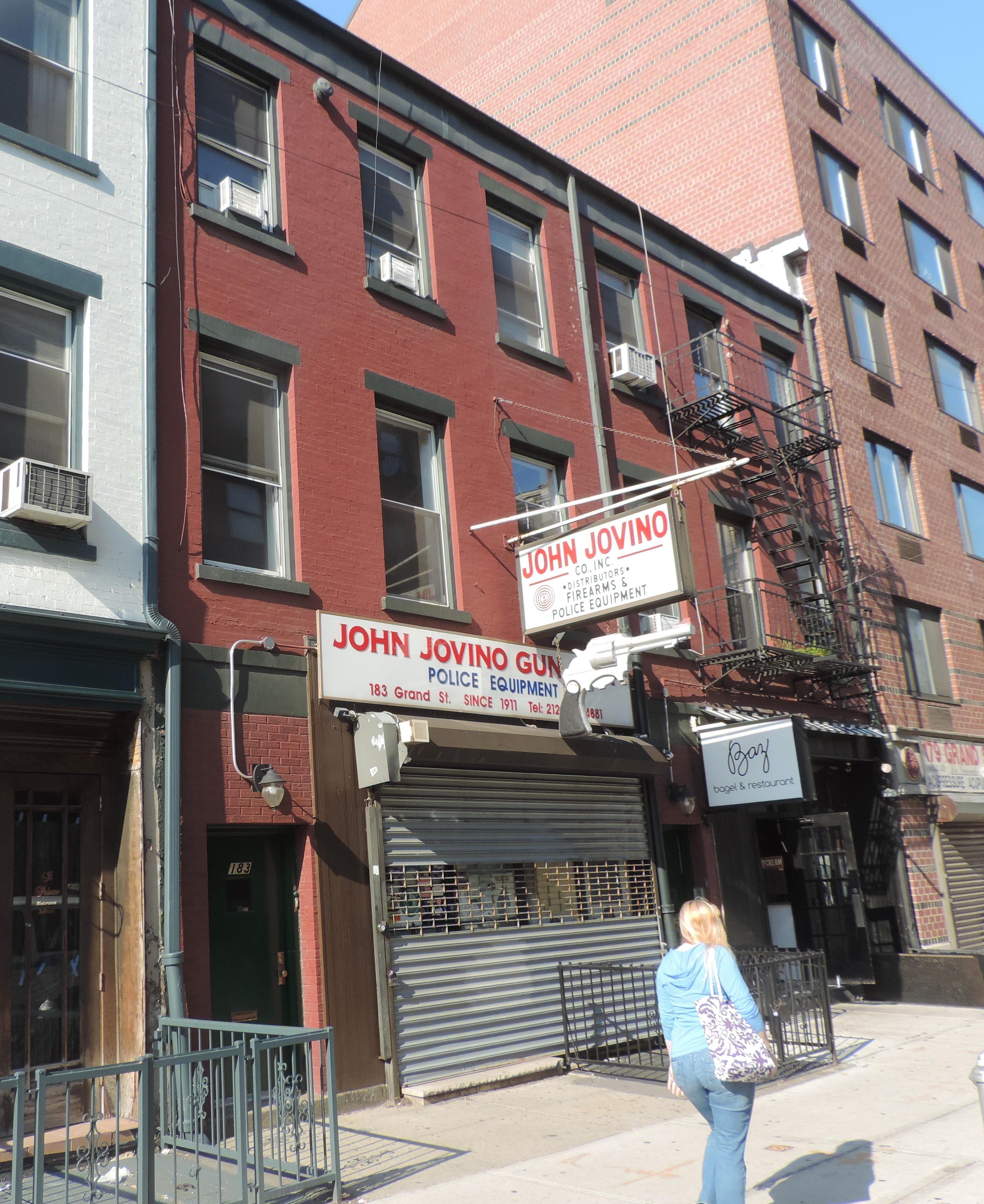 Looking west at gun shop on a sunny morning.